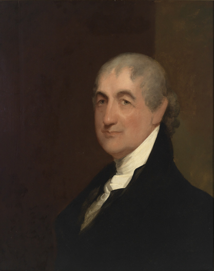 Portrait of Caleb Strong (1745-1819)